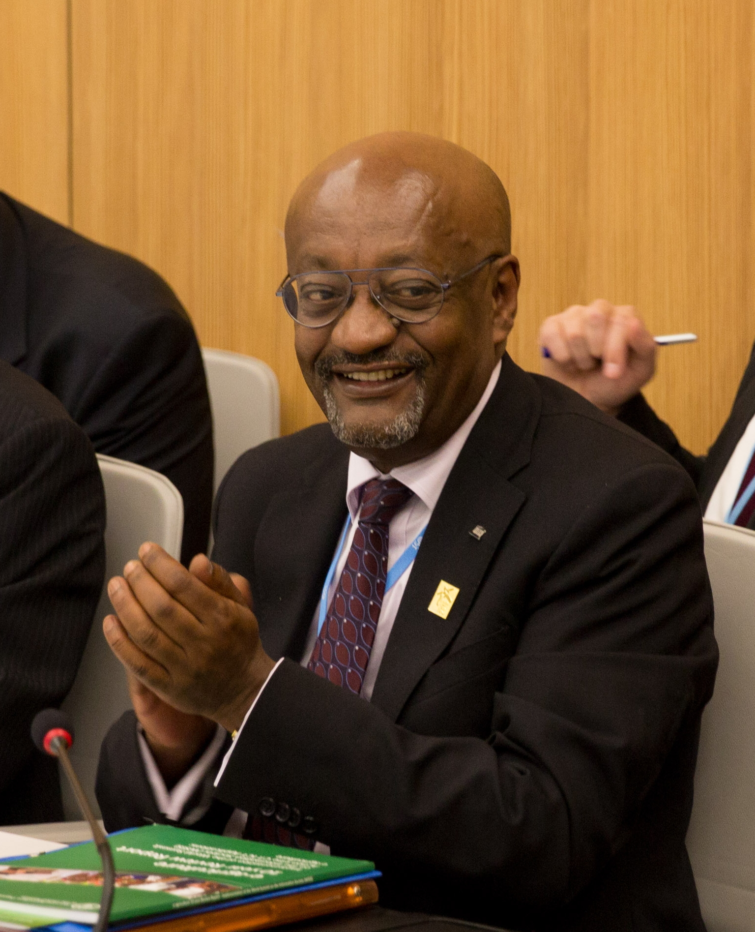 WSIS FORUM 2015 Day 2 High-Level Meeting of UNGIS Mr Getachew Engida, Deputy Director General, UNESCO